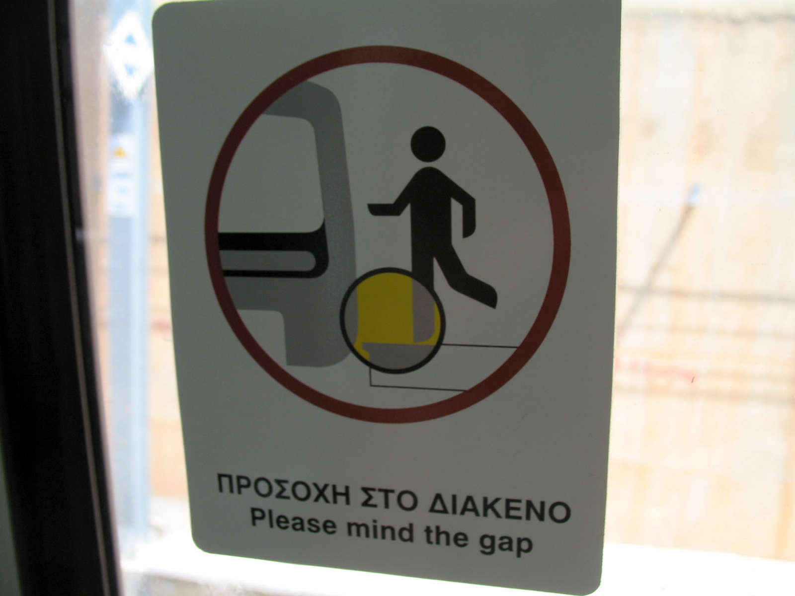 Warning signal in the Metro of Athens.